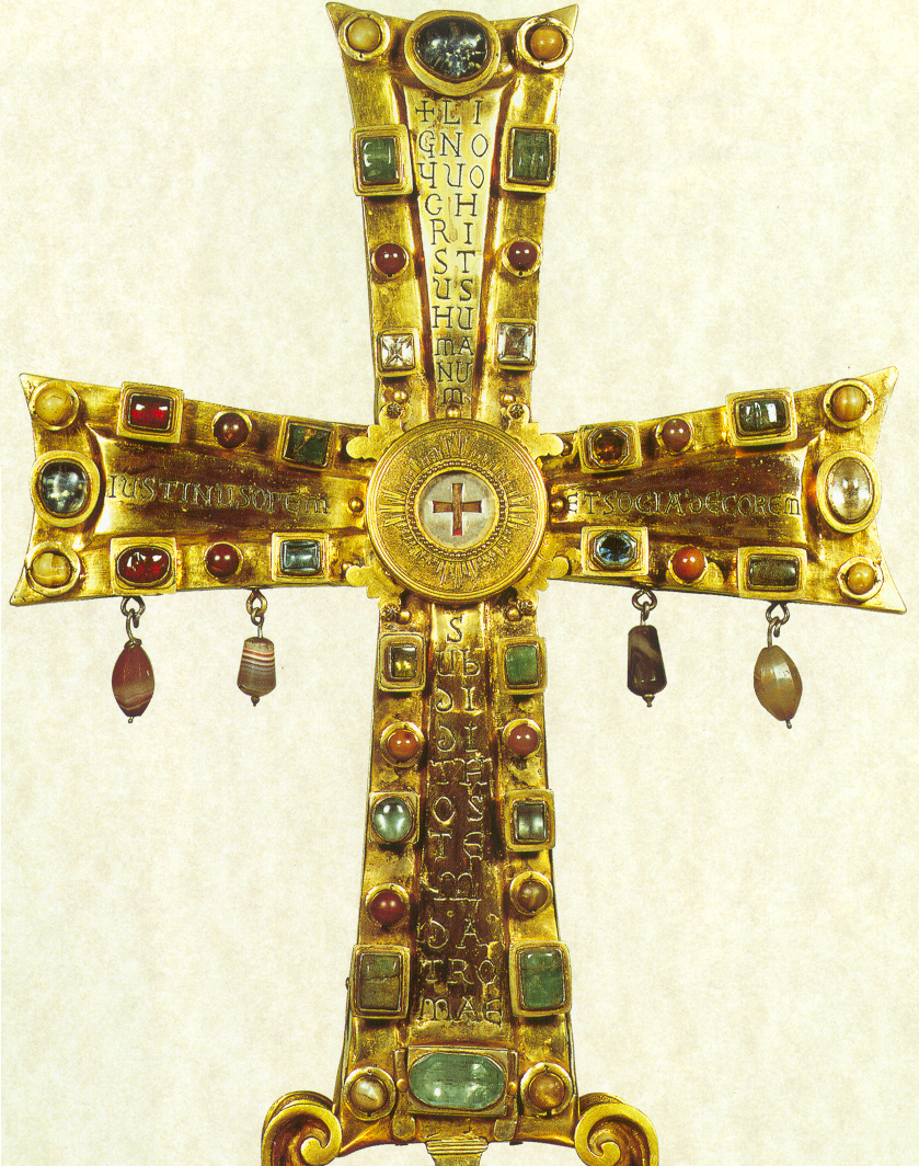 Image of the Cross of Justin II